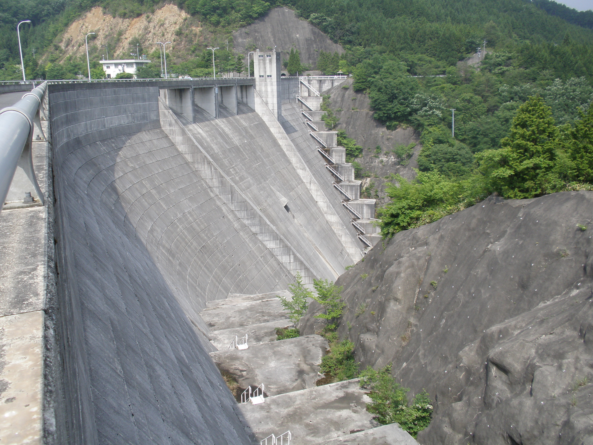 Takasegawa Dam on the Takase river (tributary of Takahashi river), Niimi, Okayama.